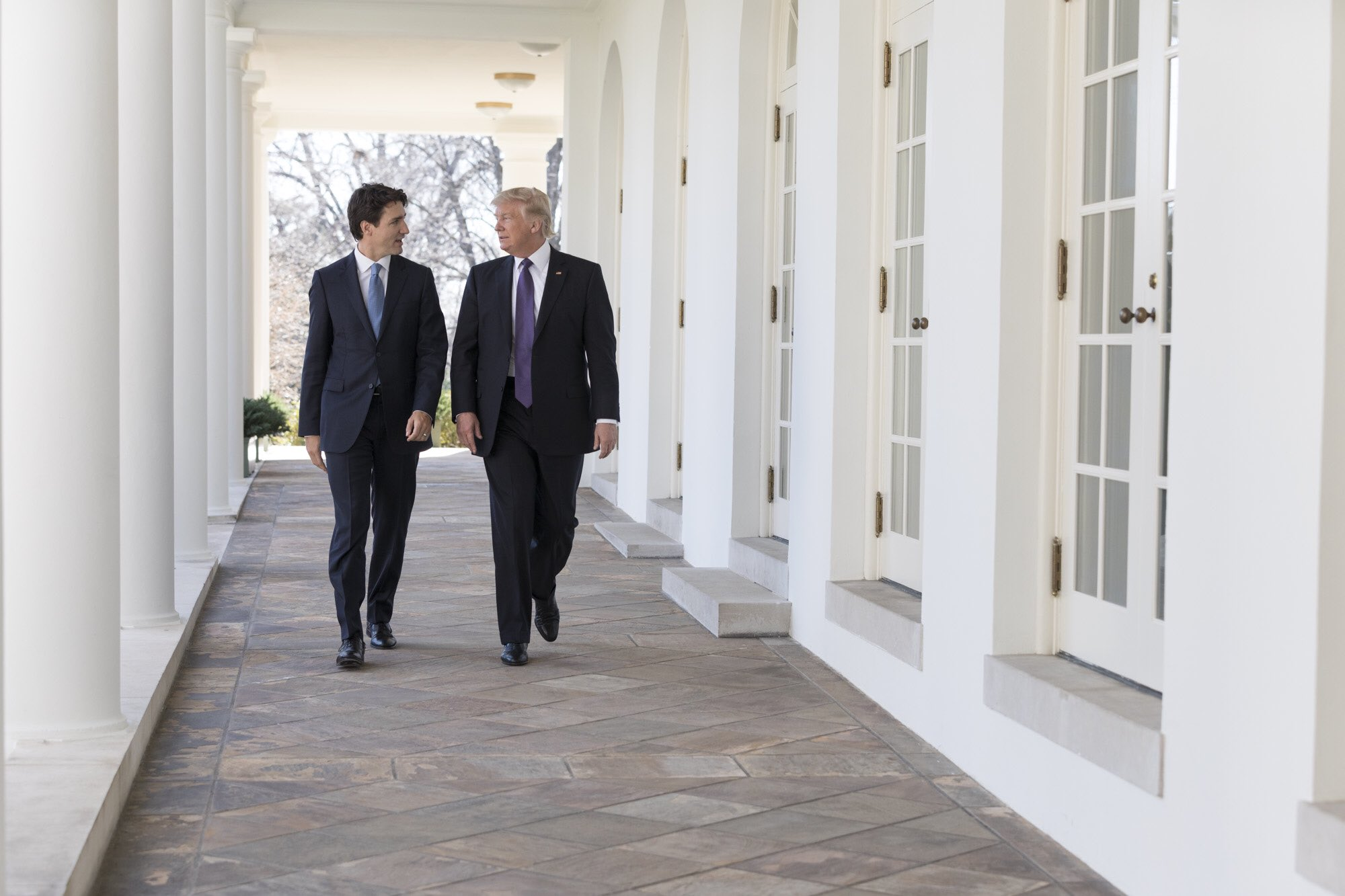 Wonderful meeting with Canadian PM @JustinTrudeau and a group of leading CEO's & business women from Canada and the United States